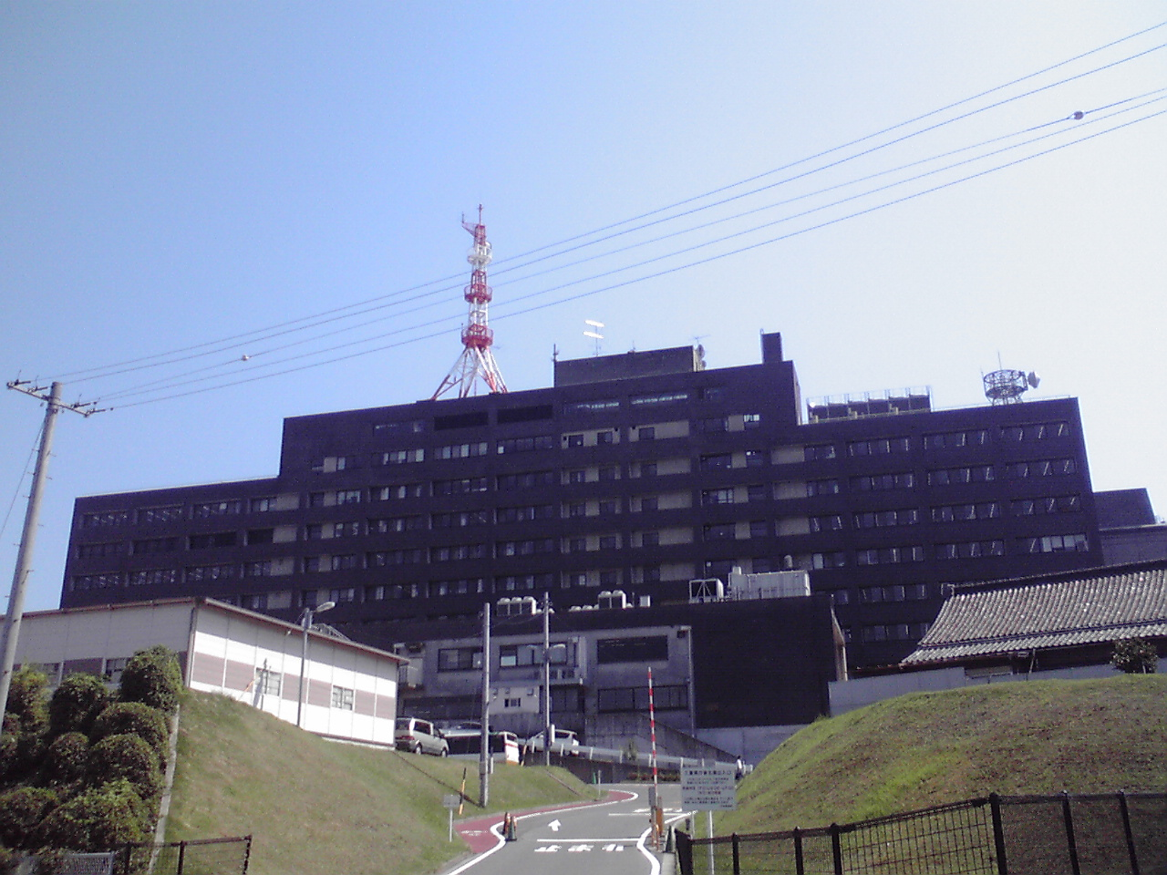 This is the Mie prefecture government office building.